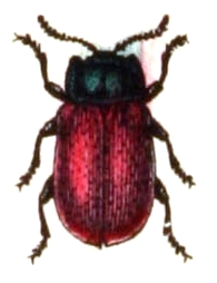 Chrysomela tremulae, from Calwer's Käferbuch, Table 44, Picture 14. Taxonomy was updated to 2008, using mostly the sites Fauna Europaea and BioLib. Please contact Sarefo if the determination is wrong!